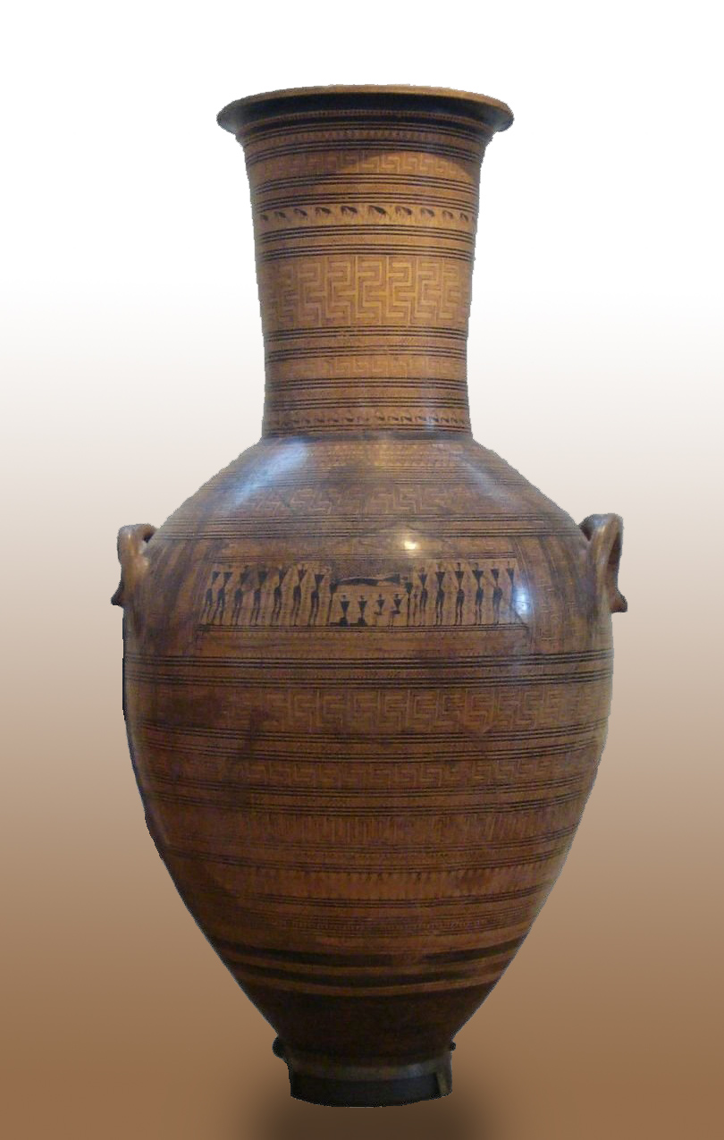 Dipylon vase, National Archaeological Museum in Athens; picture made on the basis: Image:Dypilon vase.JPG - author: Prof saxx